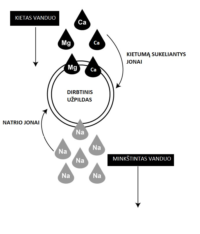 Jonų mainų reakcija